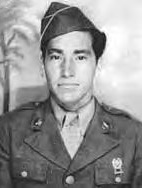 David M. Gonzales (1923-1945), U.S. Army private, posthumous Medal of Honor recipient for his heroic actions in the Battle of Luzon during World War II.